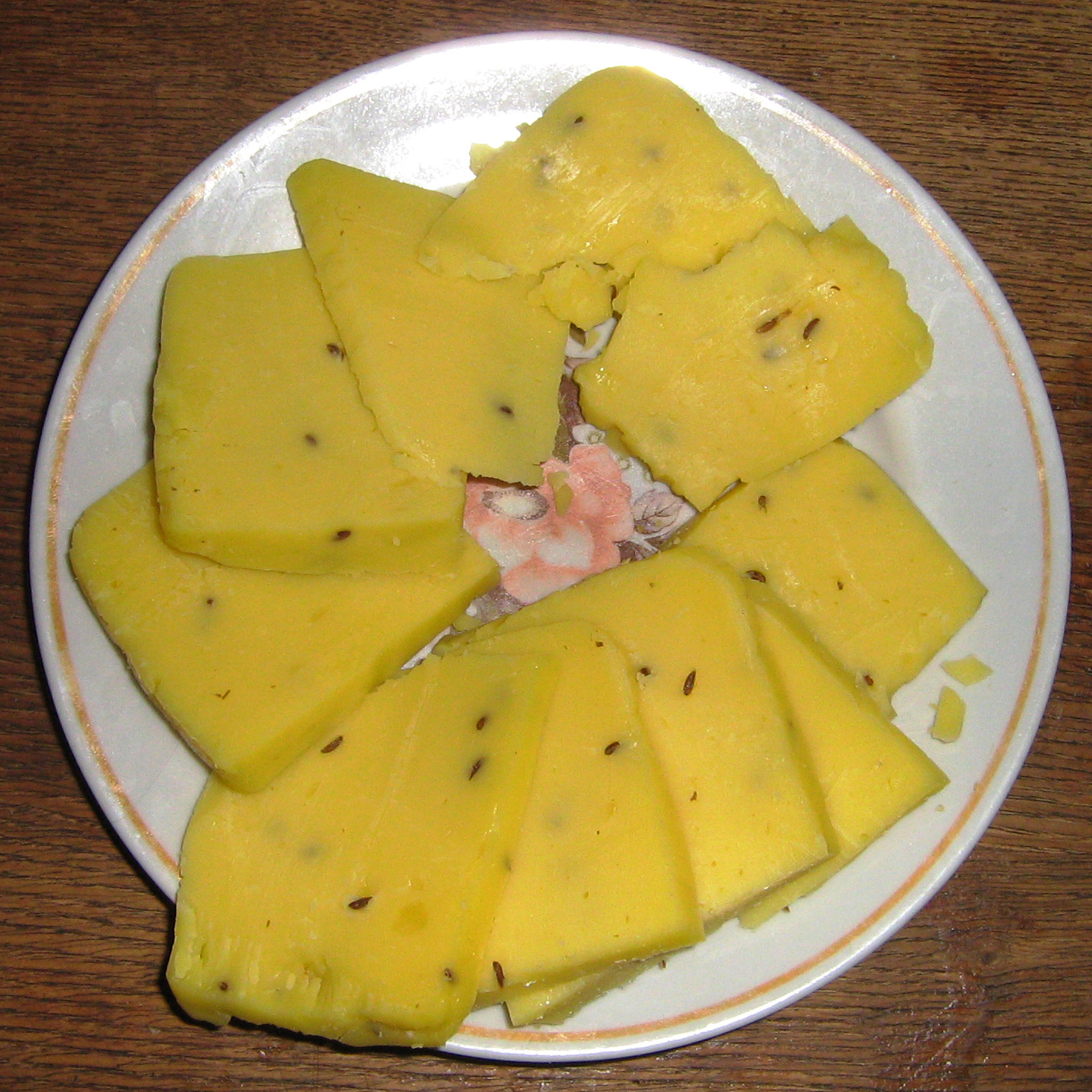 Caraway cheese is traditional Latvian food usually served on Midsummer Festival